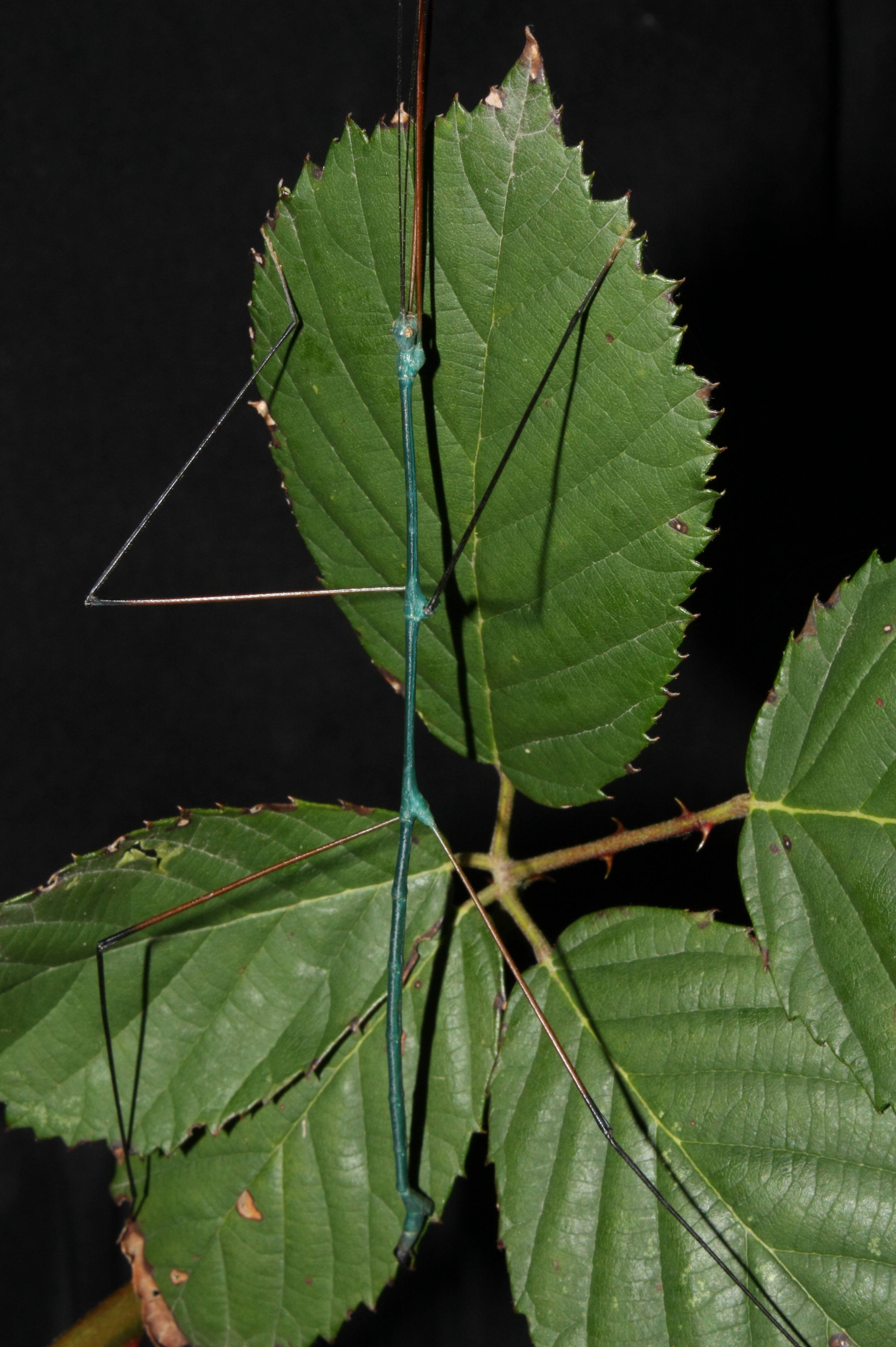 Blue Male of Ramulus nematodes